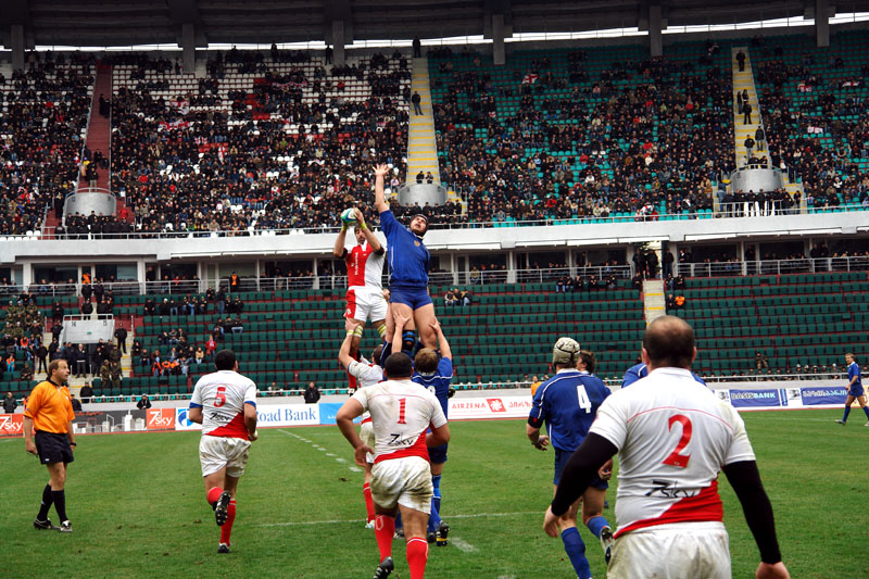 Georgia versus Russia in rugby union